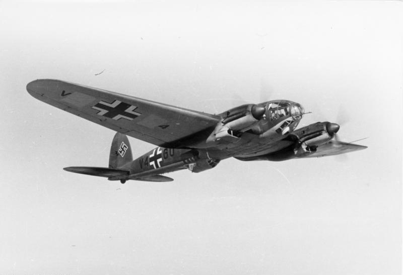 Information added by Wikimedia users.